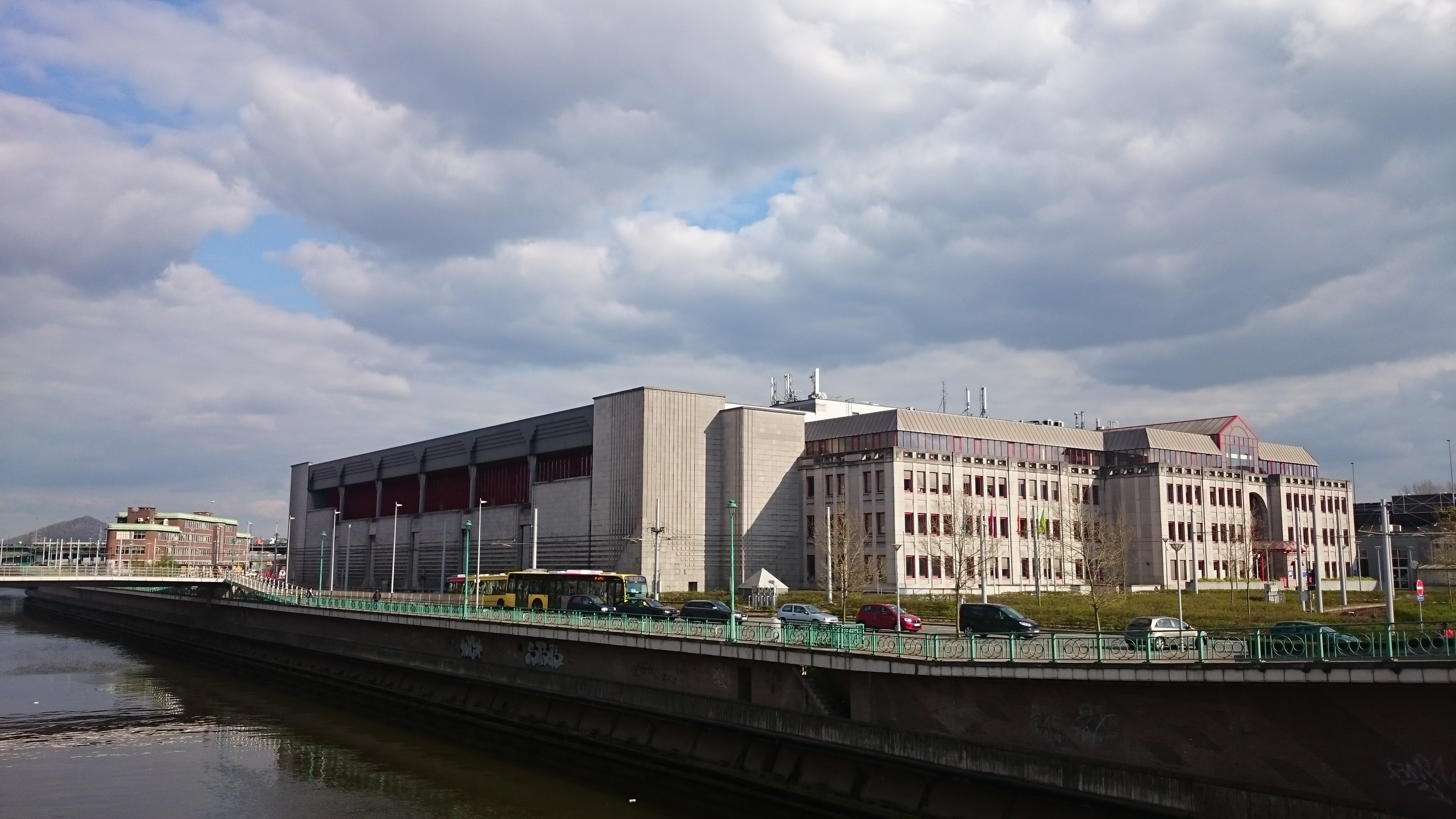 Quai de la Gare du Sud, Charleroi